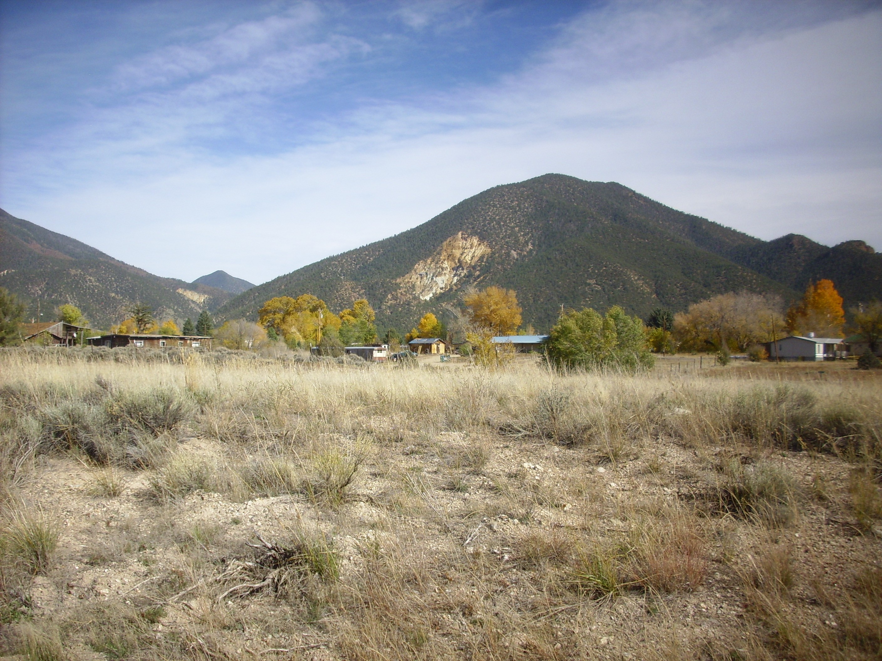 This image shows a light yellow exposure of intracaldera Amalia Tuff of the Questa caldera on the north flank of Eagle Rock, New Mexico, USA.